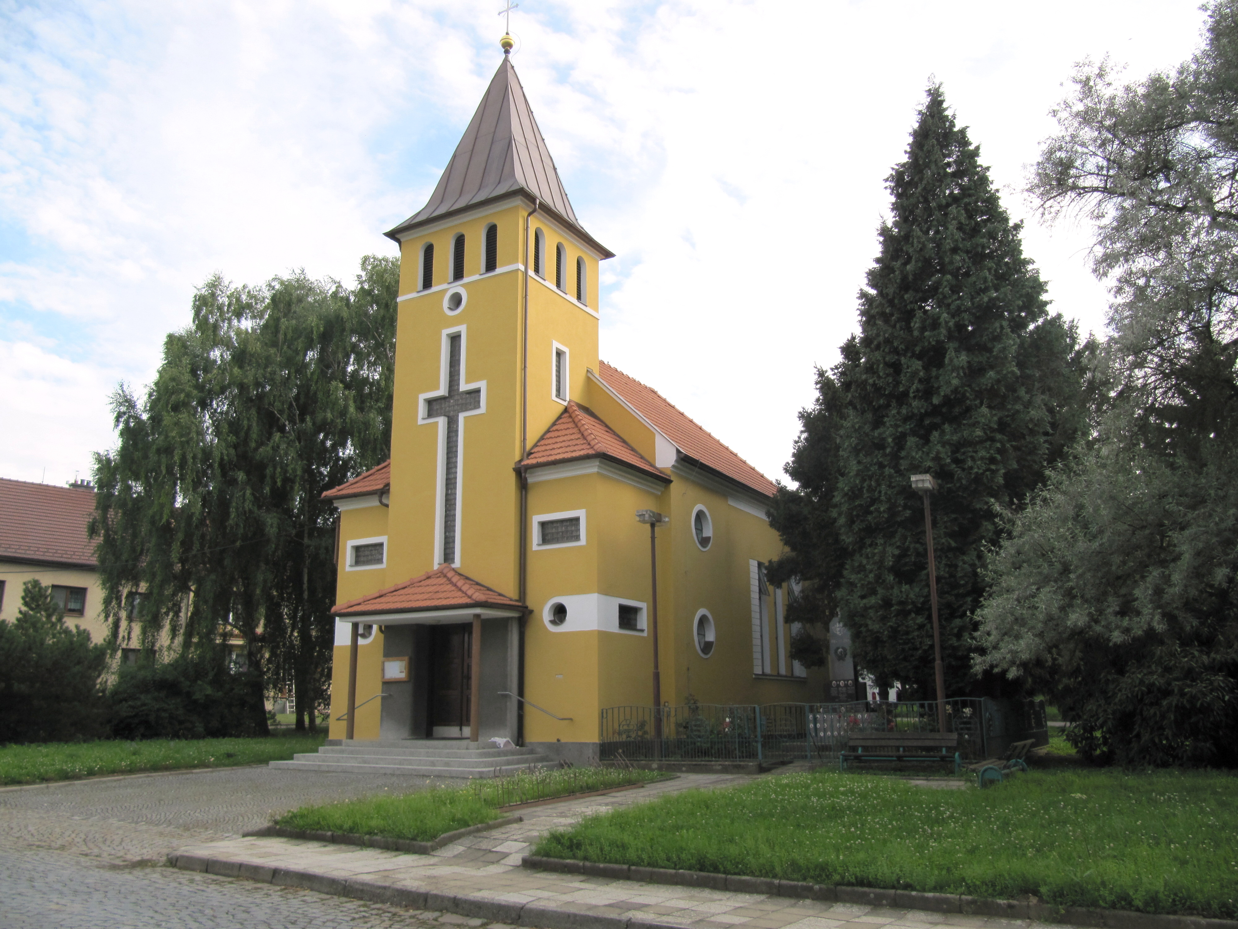 Uherské Hradiště, Czech Republic, part Jarošov. Church of Our Lady of the Rosary.